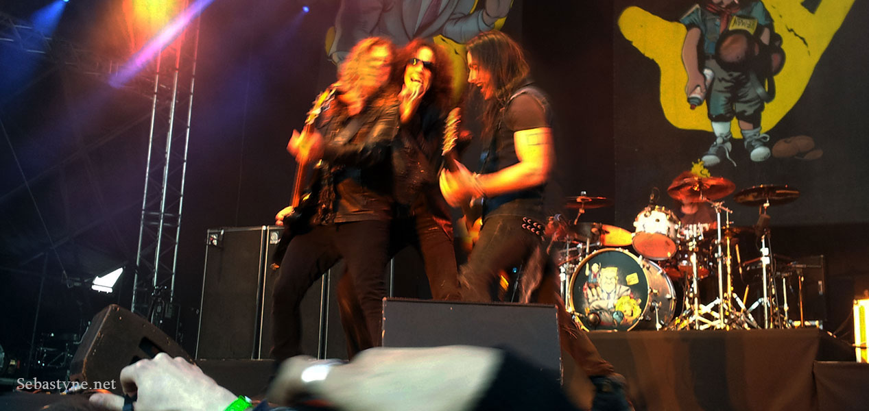 A photo of Pat Badger, Gary Cherone and Nuno Bettencourt playing with the band Extreme at a rock festival in summer 2015